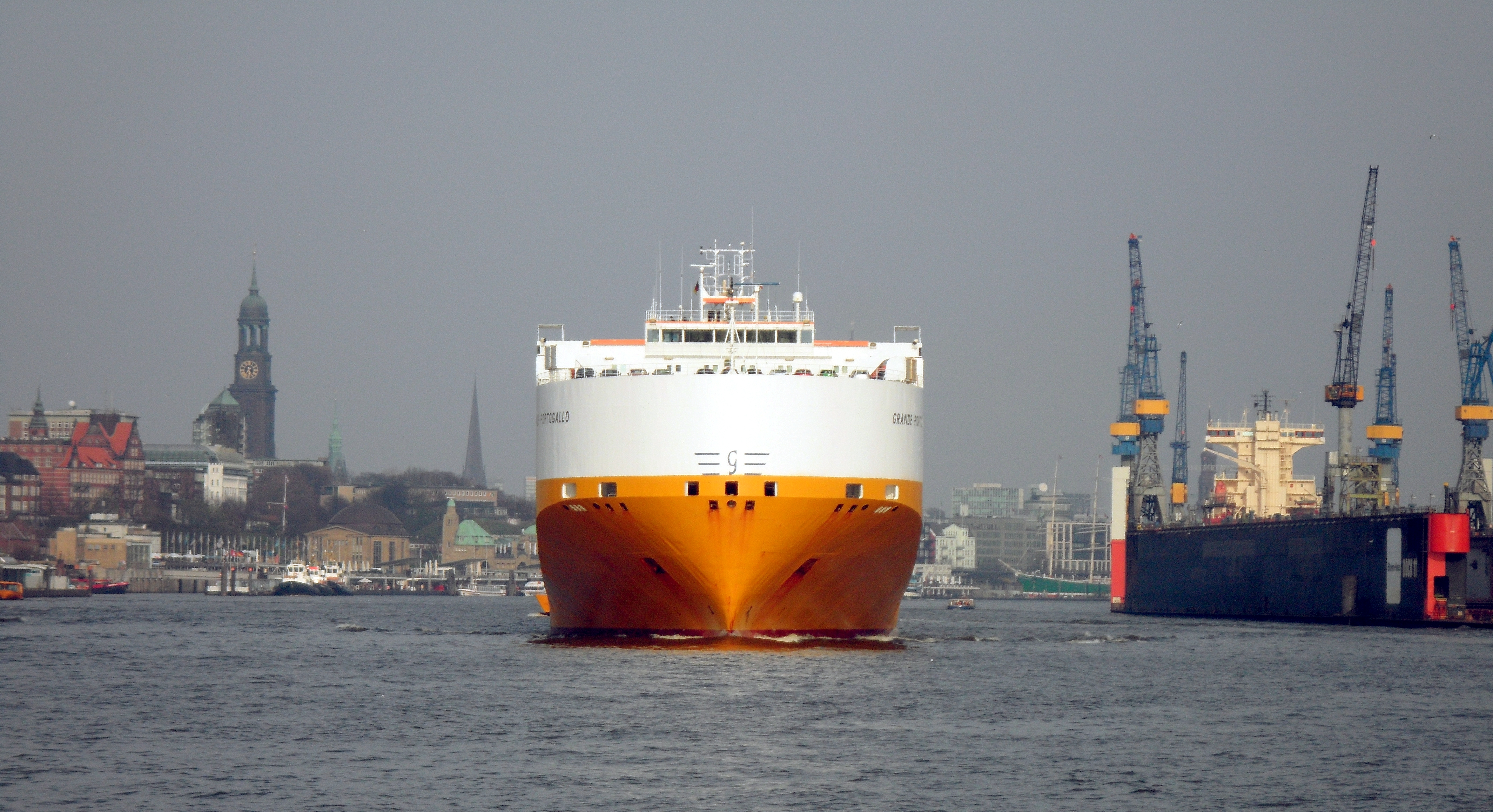 Grimaldi Ro-Ro ship Grande Portogallo starting Hamburg, on a collision course